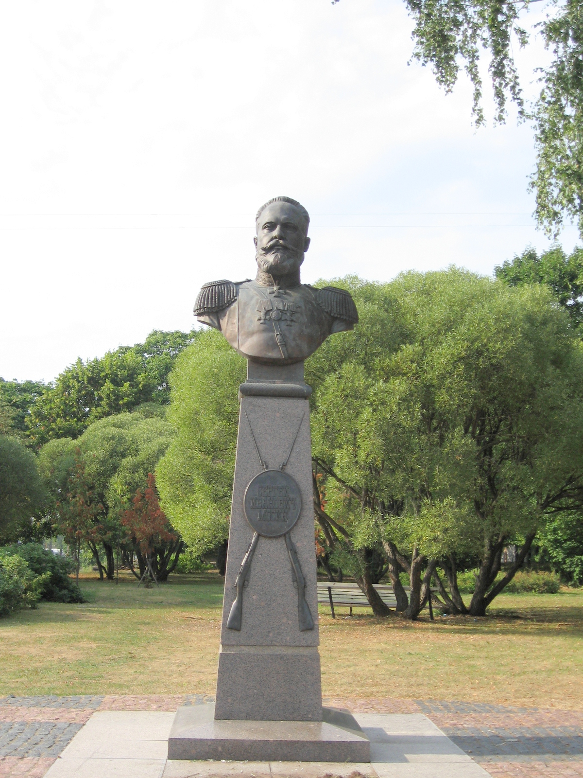 Monument to Sergej Mosin in Sestroretsk